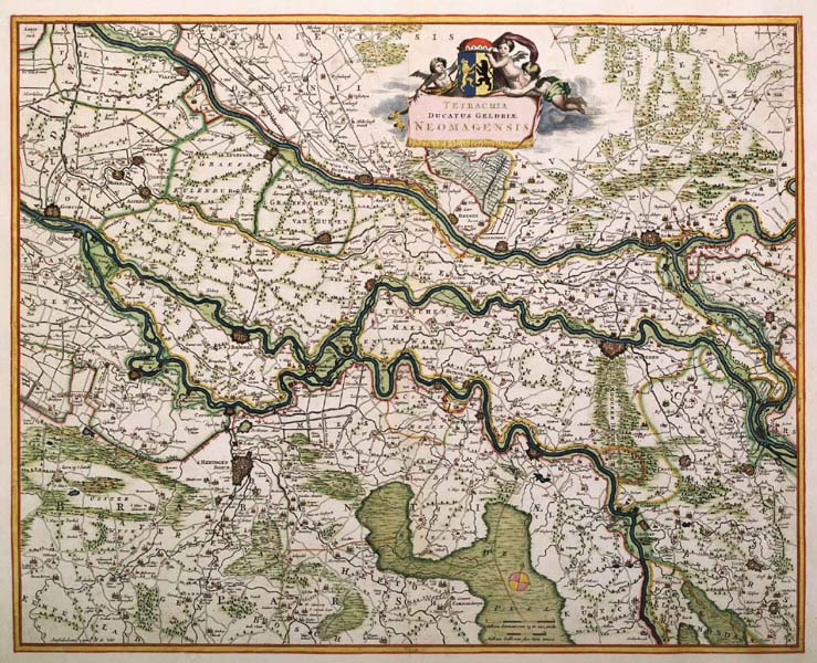 Map of quarter of Nijwegen